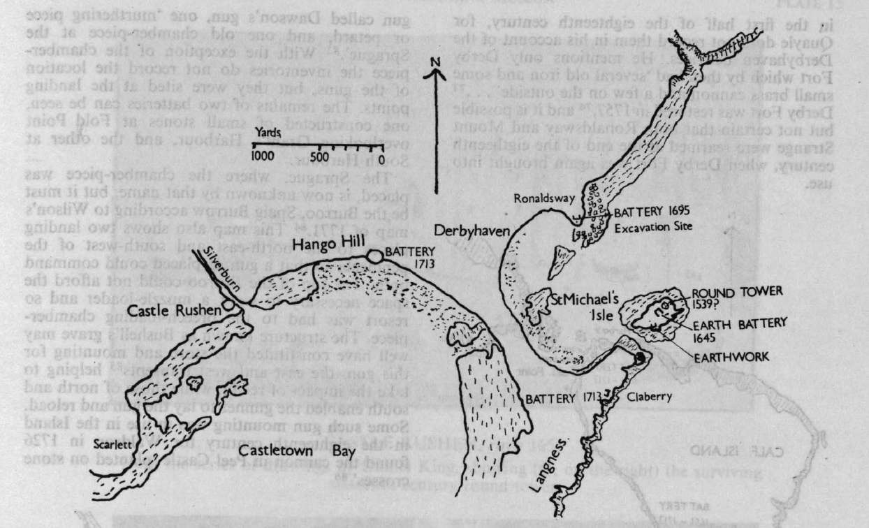 Defensive Forts around the south of the Isle of Man, circa (1760)